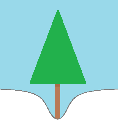 Tree well drawing